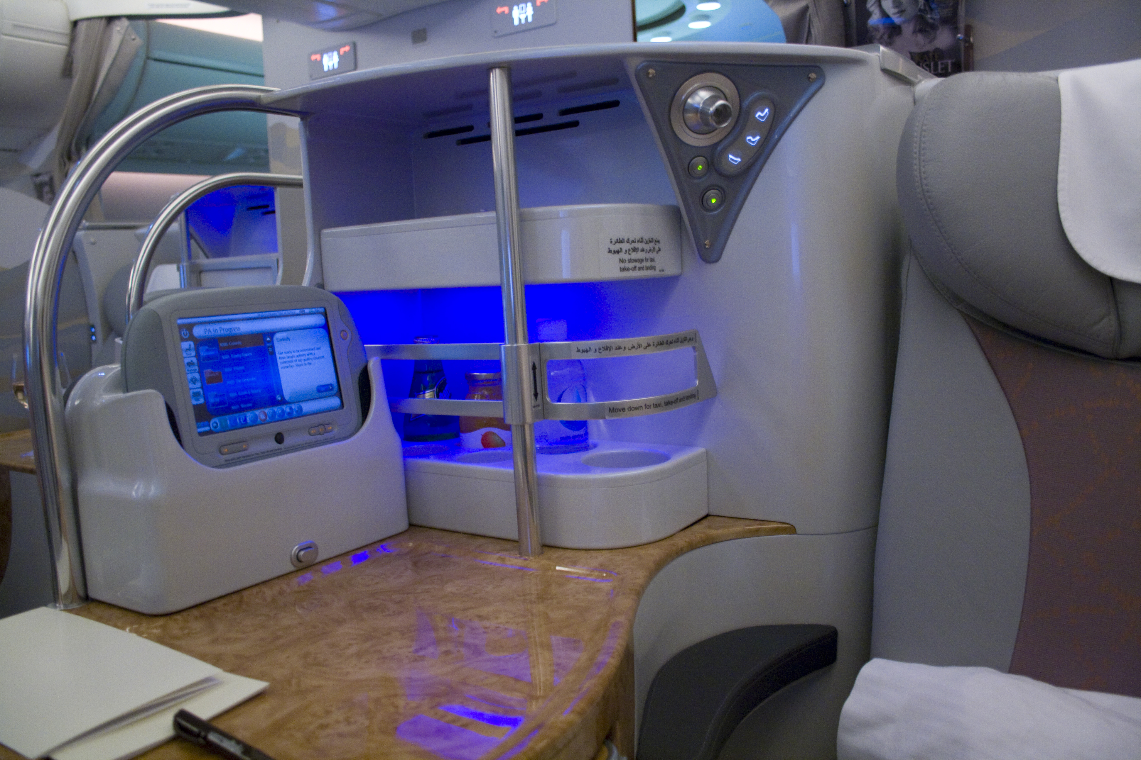 Mini Bar On Board an Emirates Airbus A380-800 - Business Class